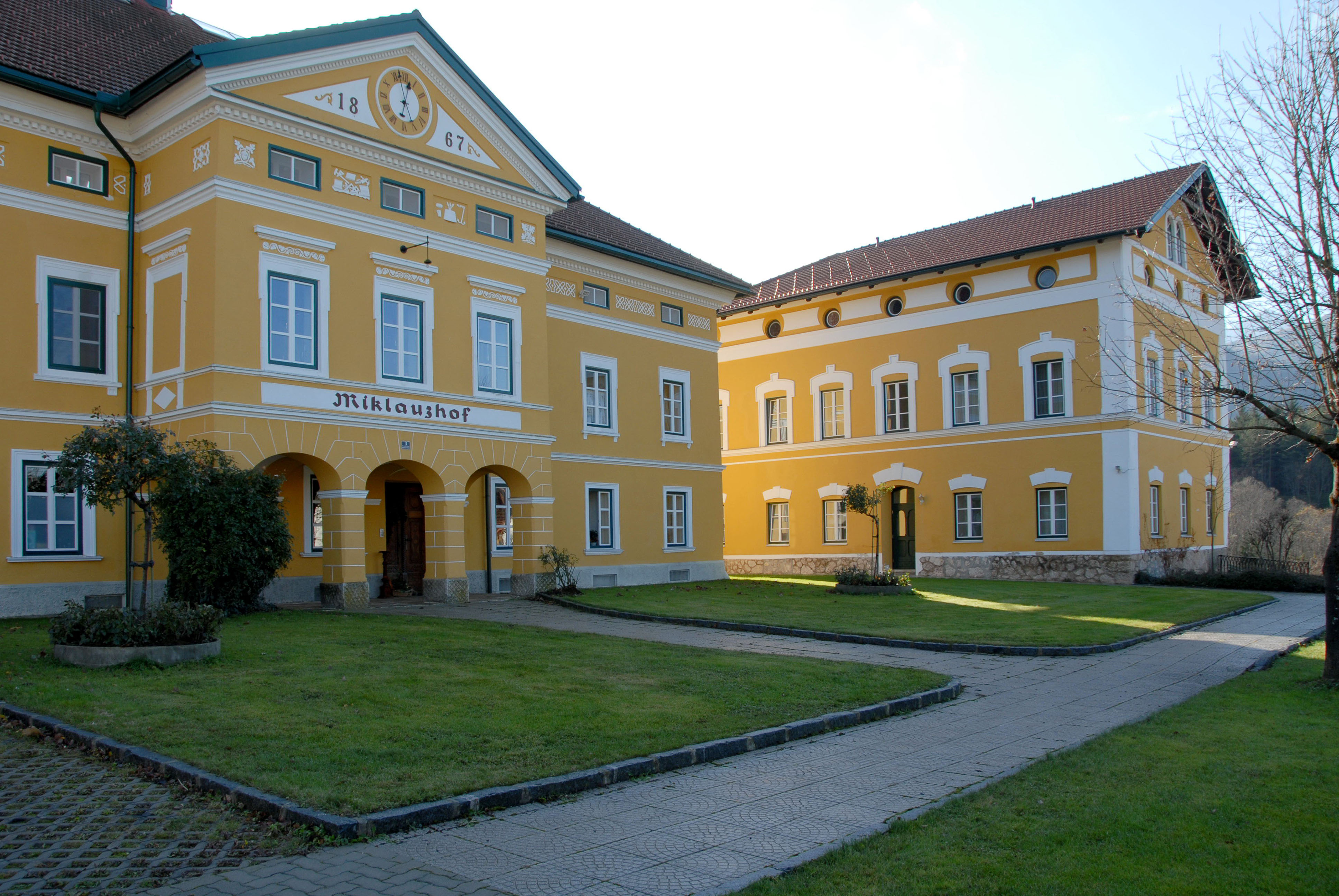 Miklauzhof in the community of Sittersdorf, situated in the district Voelkermarkt, Carinthia, Austria